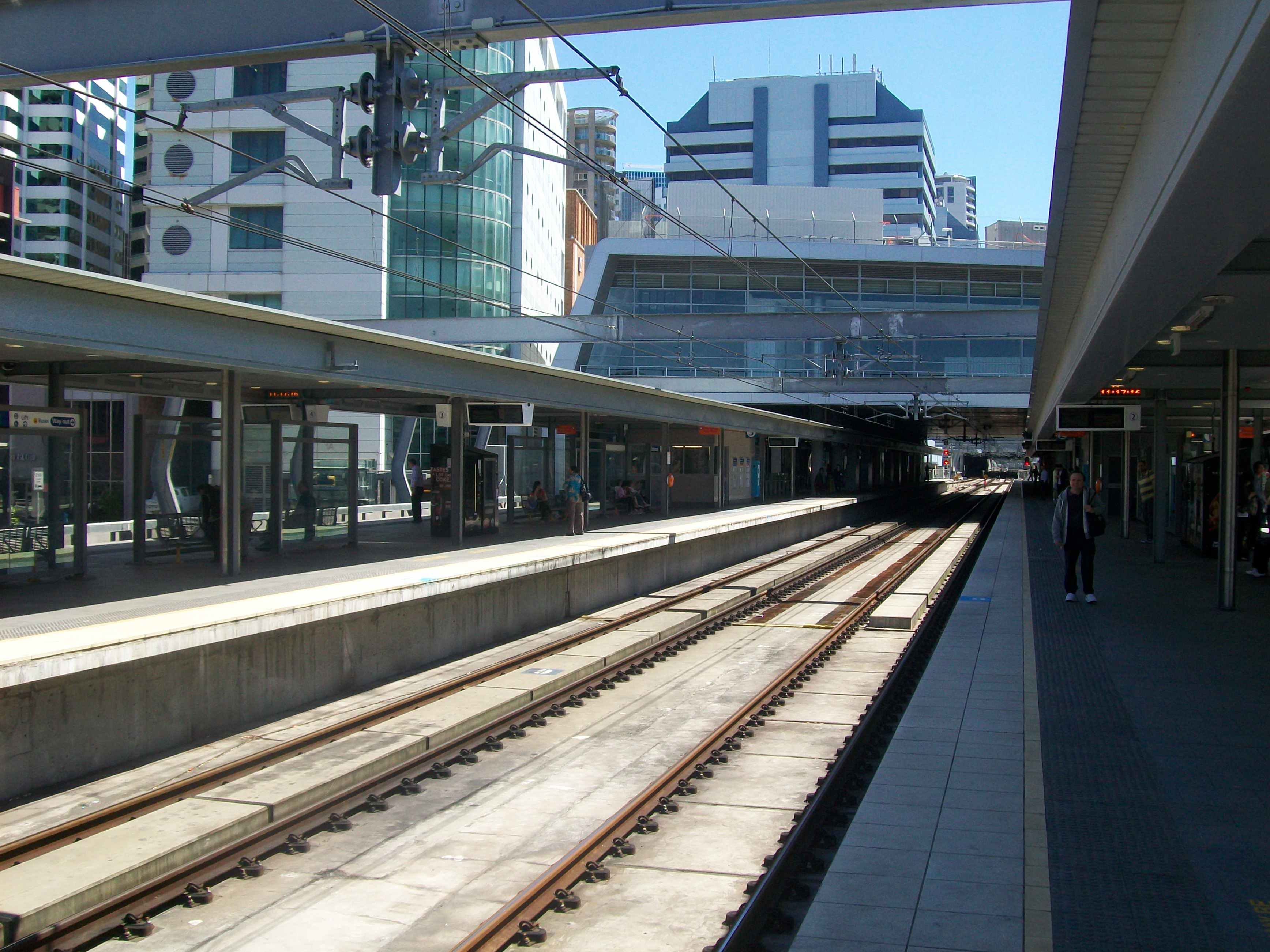 Chatswood railway station before the construction of apartment towers above the platforms